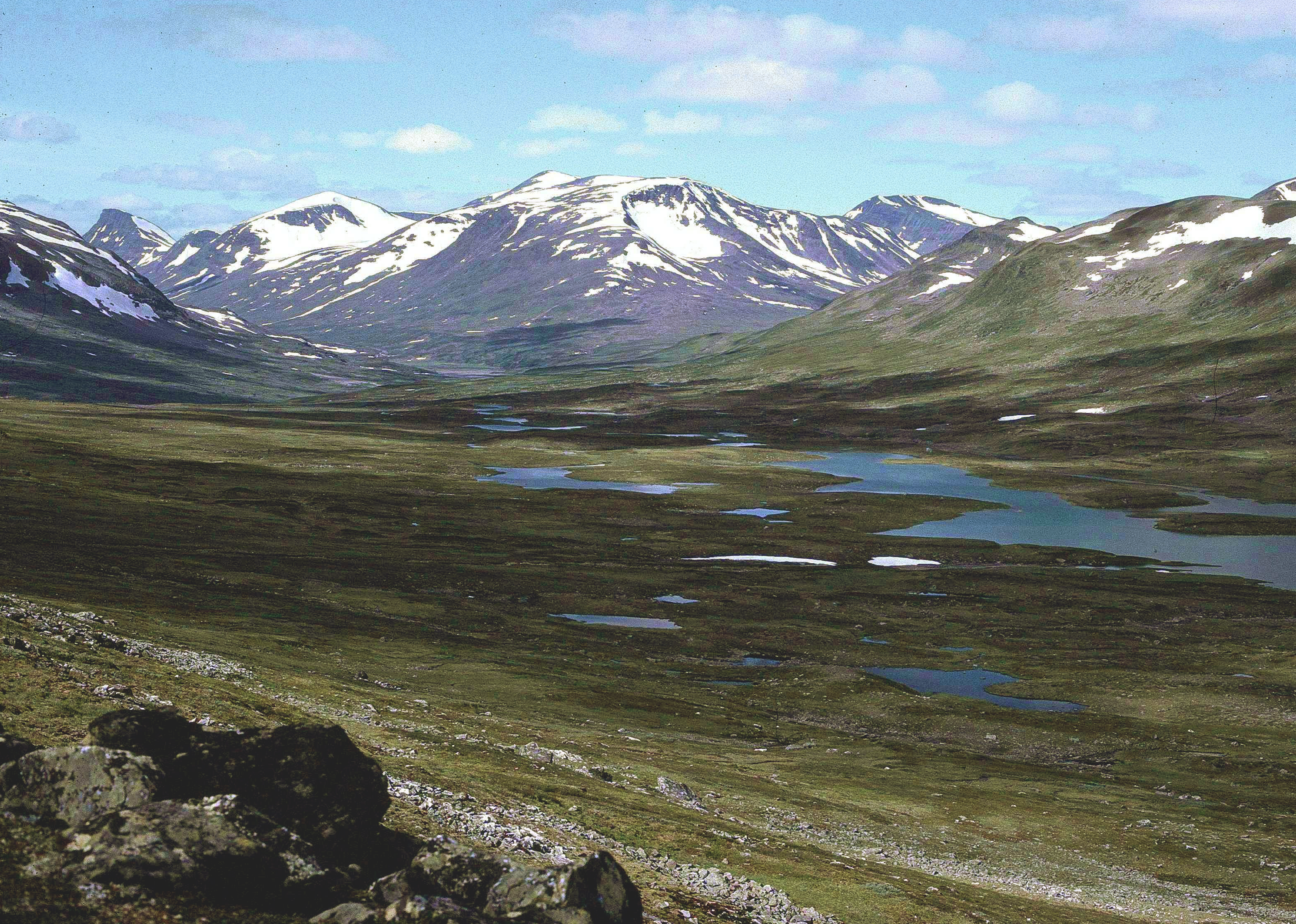 Pielavalta in Sarek National Park